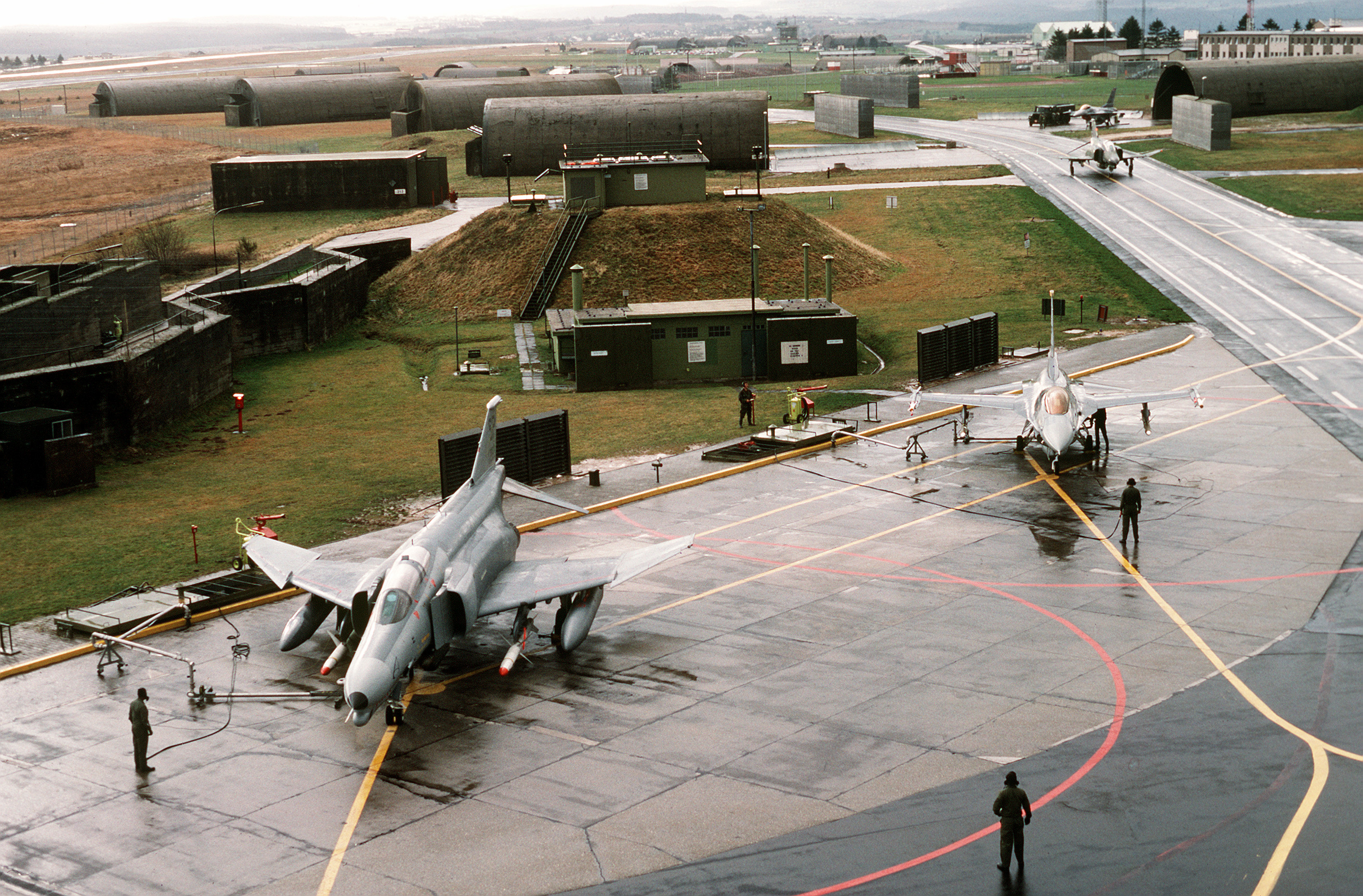 A U.S. Air Force McDonnell Douglas F-4G Phantom II Wild Weasel aircraft from the 81st Tactical Fighter Squadron, 52nd Tactical Fighter Wing is serviced on the flight line prior to departing for Sheikh Isa Air Base, Bahrain, during Operation "Desert Shield" in late 1990. The F-4G is armed with AGM-88 HARM missiles.